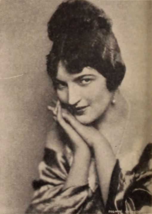 Actress Dagmar Godowsky, on page 98 of the February 21, 1920 Exhibitors Herald.